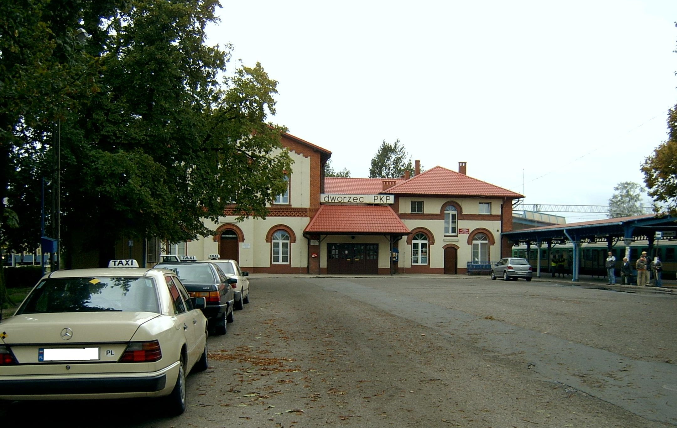 train station in Rzepin (Poland)